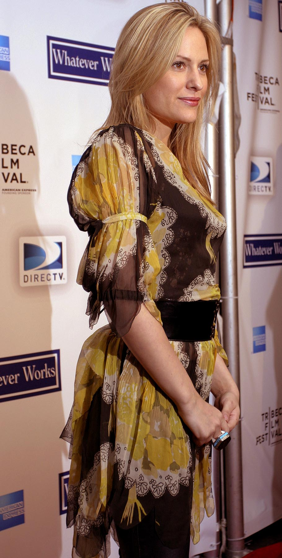 Aimee Mullins at the "Whatever Works" Premiere, Tribeca Film Festival 2009